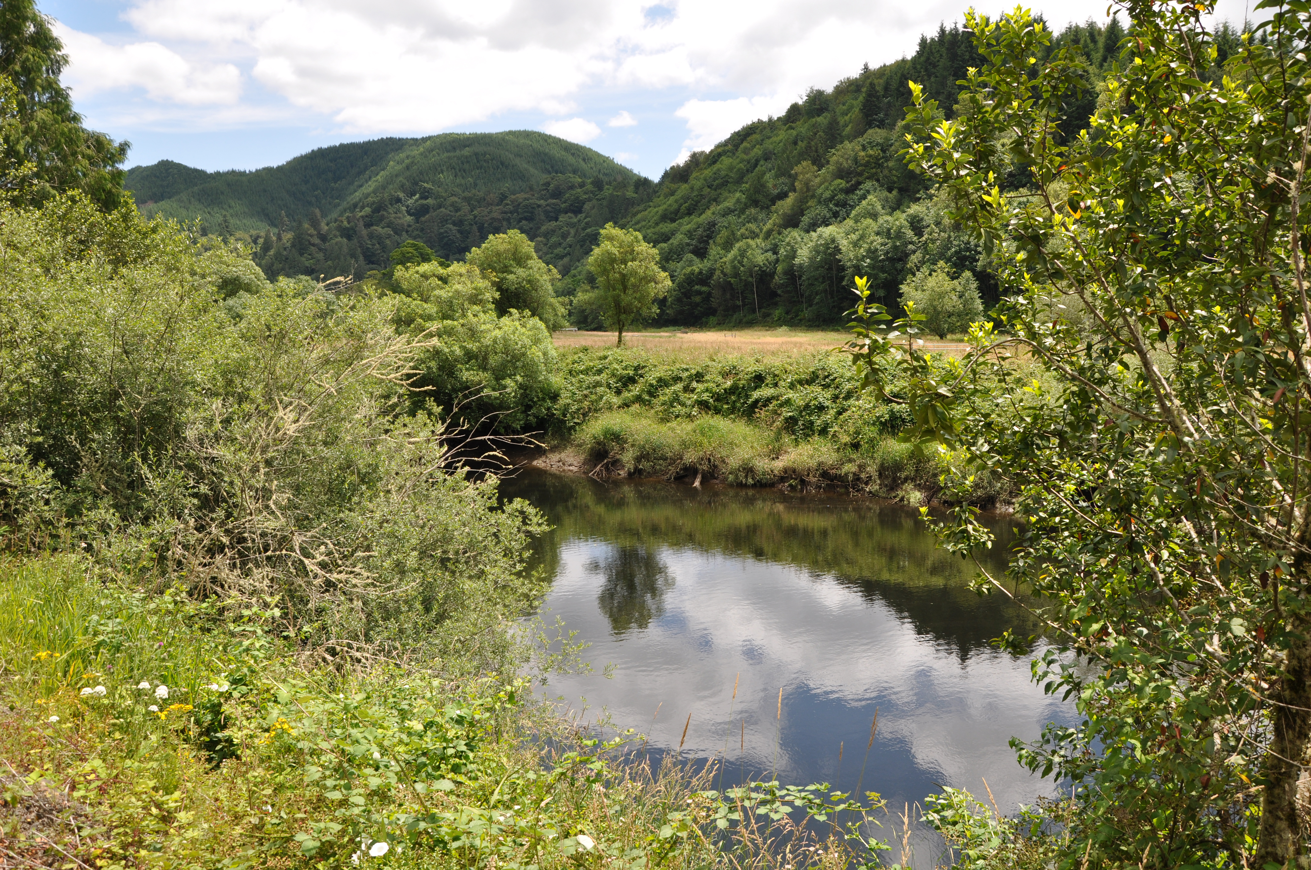 Millicoma River, a tributary of the Coos River in the U.S. state of Oregon. Looking south from Oregon Route 241 downstream of Allegany.